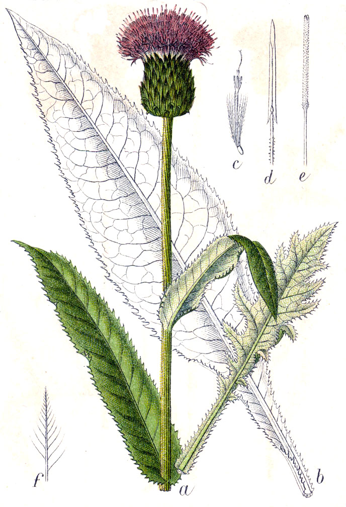 Cirsium heterophyllum (L.) Hill, syn. Carduus heterophyllus L. Original Caption Verschiedenblättrige Distel, Carduus heterophyllus